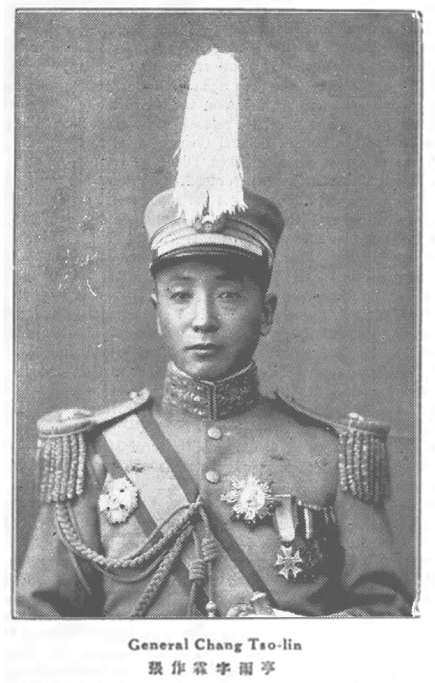 Zhang Zuolin (1875-1928)